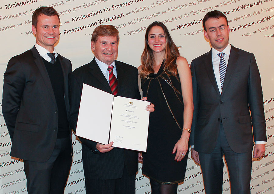 Gerhard Juchheim receiving the Medal of Honor